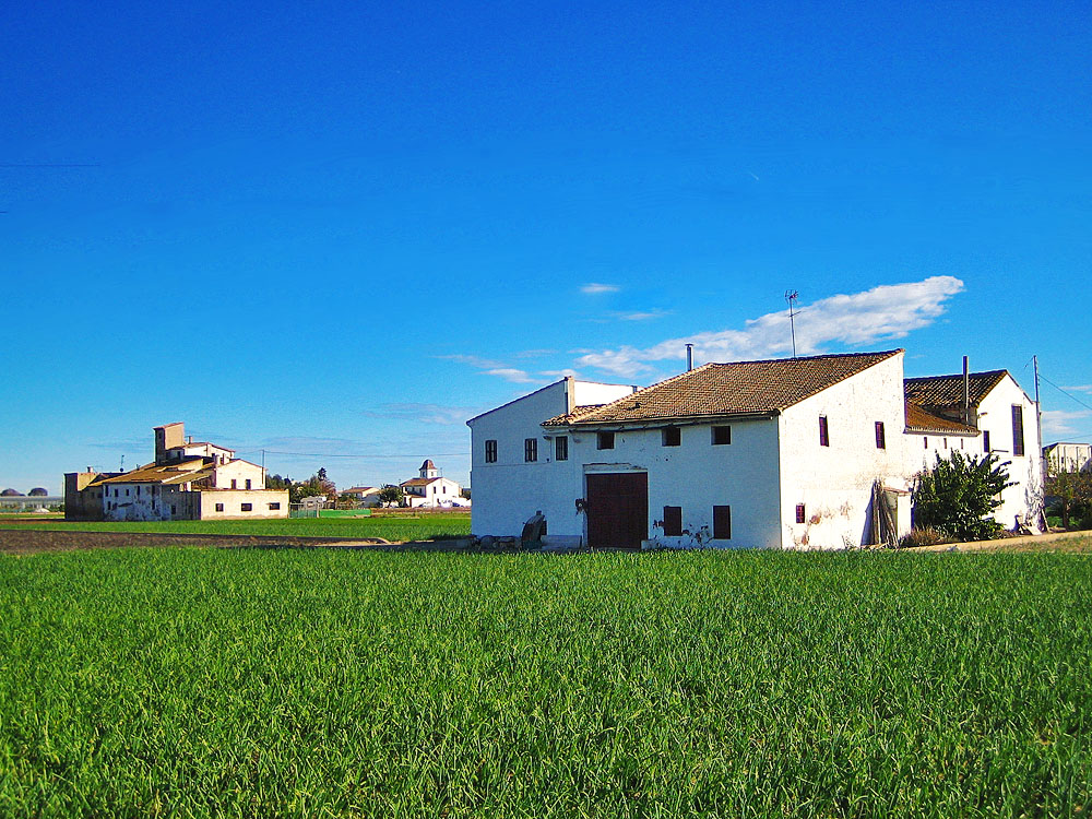 View of Valencian farmland, just north of Valencia, between Alboraia and Almàssera.